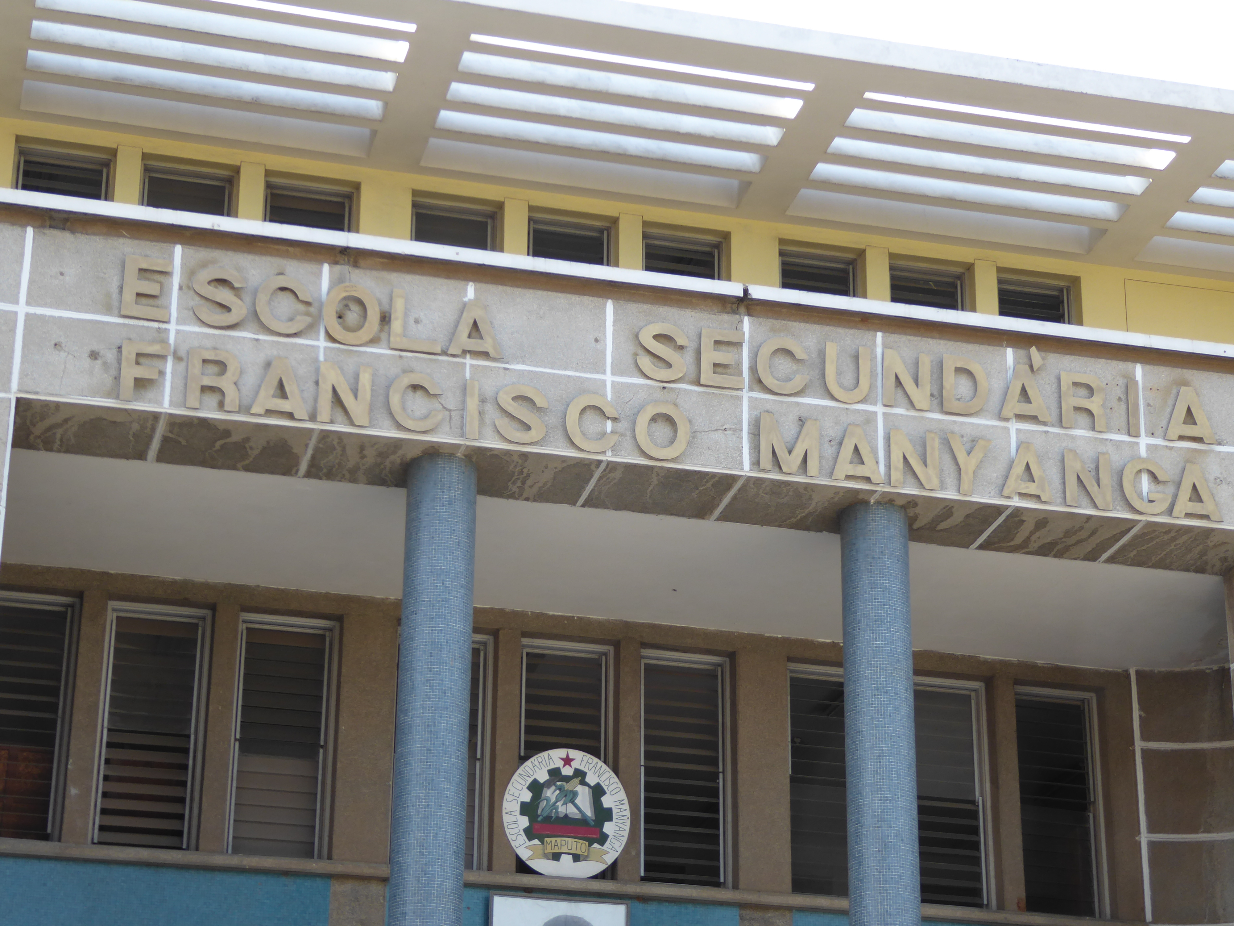 Letters at the Francisco Manyanga Secondary School, Maputo, Mozambique